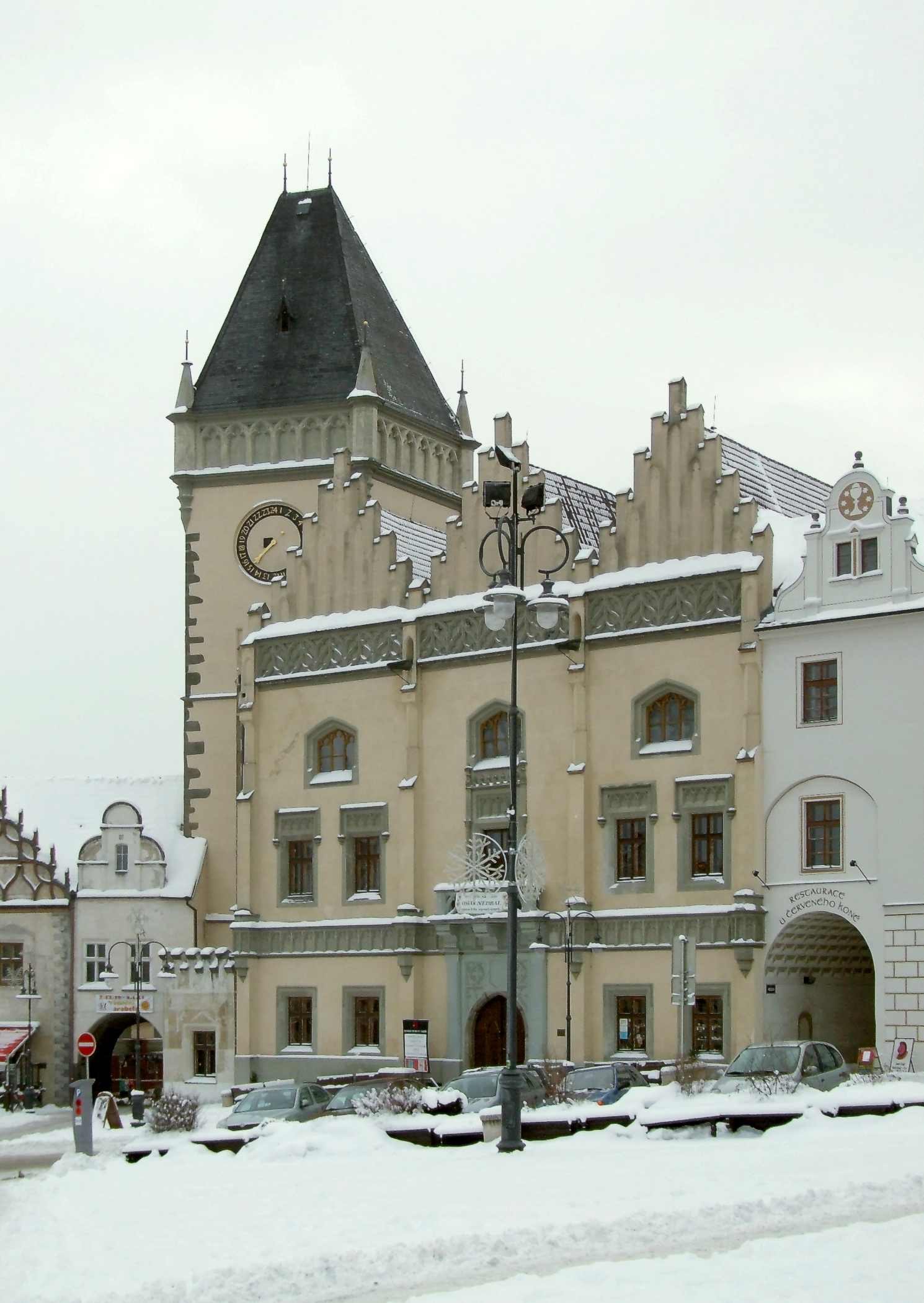 Tábor, Czech Republic - Old town hall